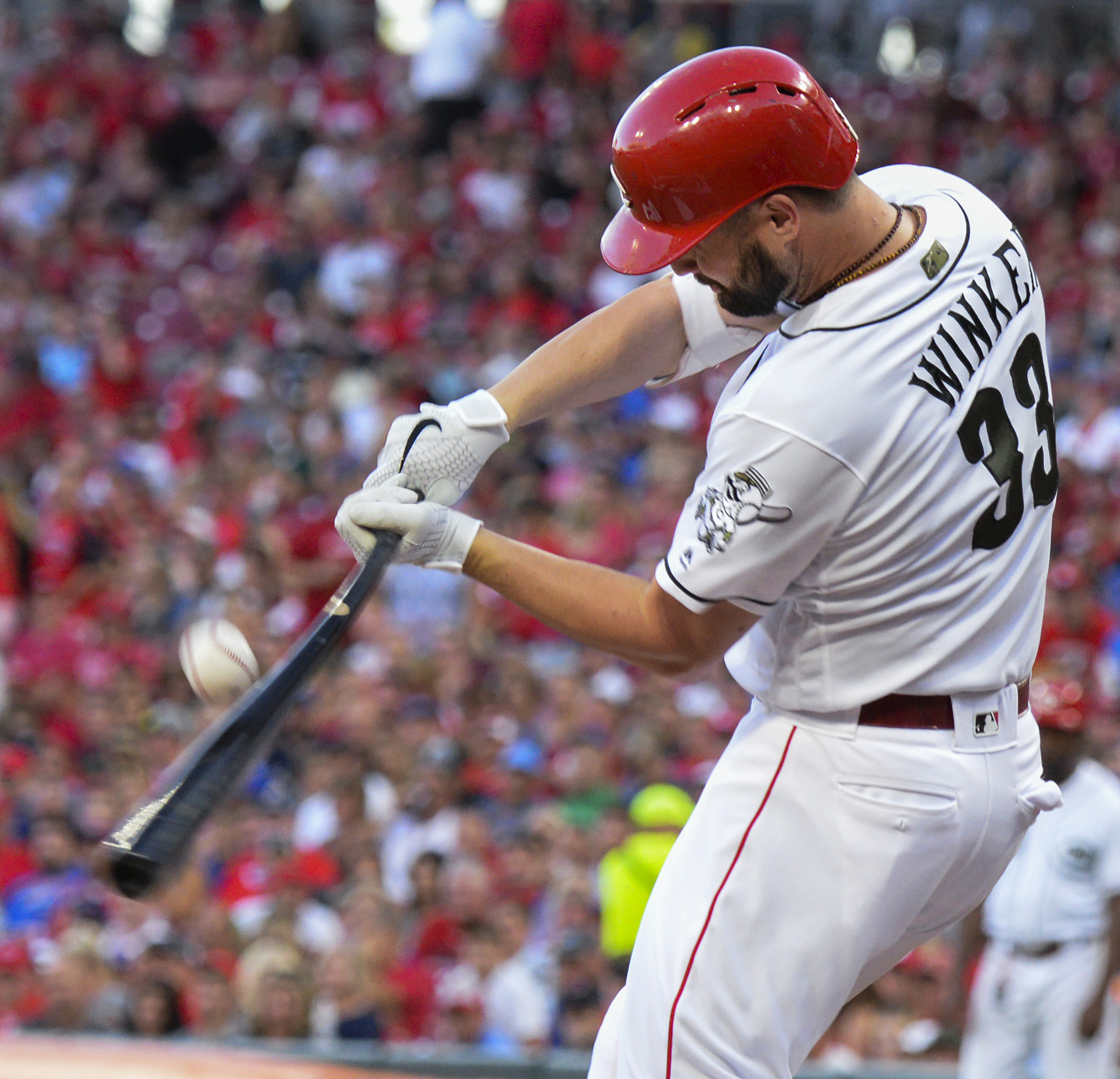 Cincinnati Reds left fielder Jesse Winker connects with a pitch Aug. 9, 2019, during a home game with the Chicago Cubs. Airmen from Wright-Patterson Air Force Base, Ohio, were in the stands for the military appreciation night and took part in pregame activities and ceremonies. (U.S. Air Force photo by R.J. Oriez)